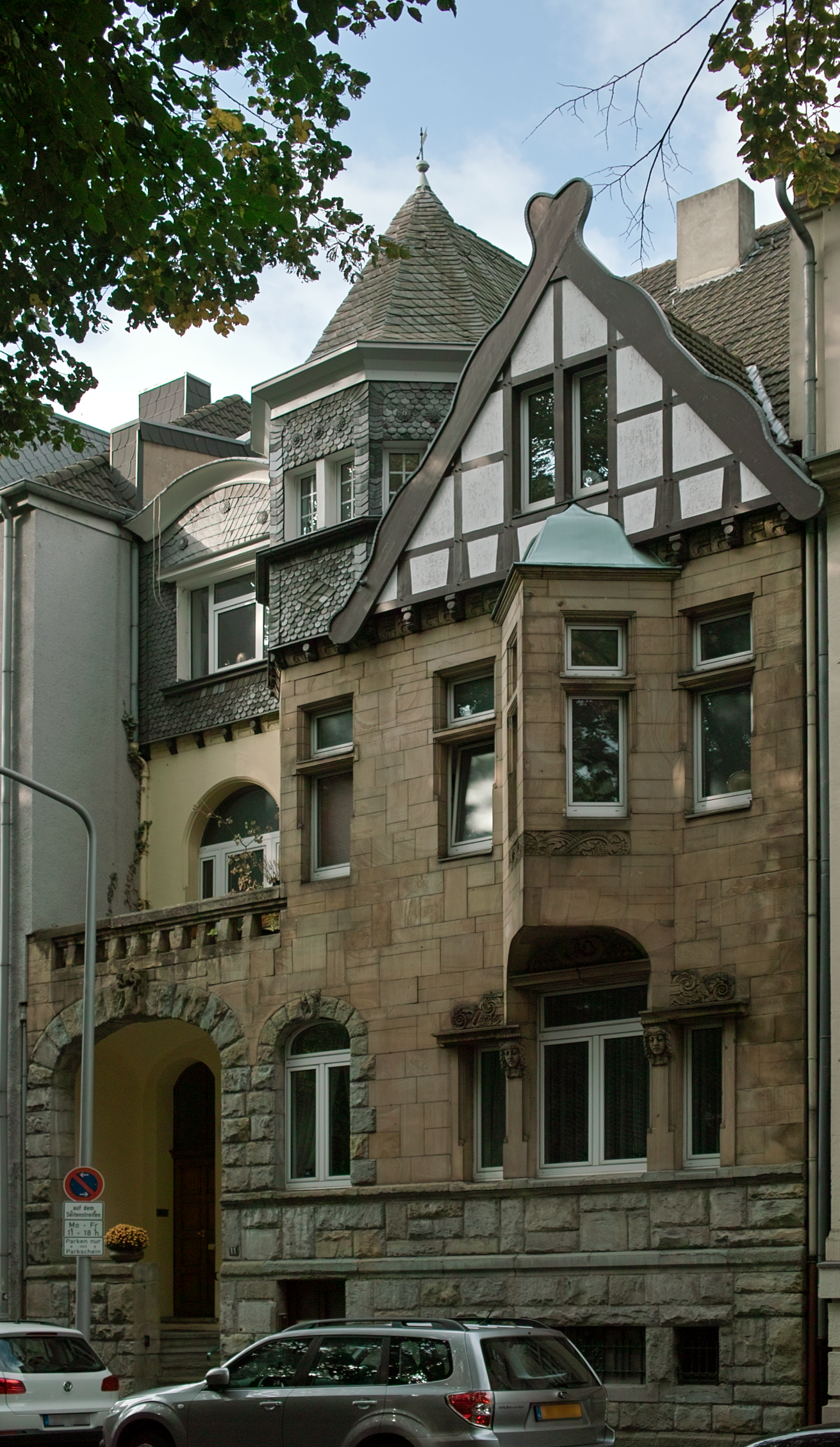 This is a photograph of an architectural monument., no. 907